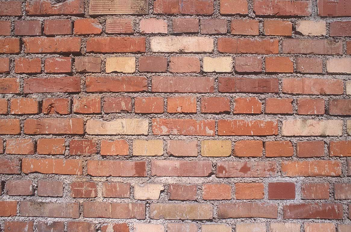 Picture of wall made of red-brown bricks. English brickwork bond.